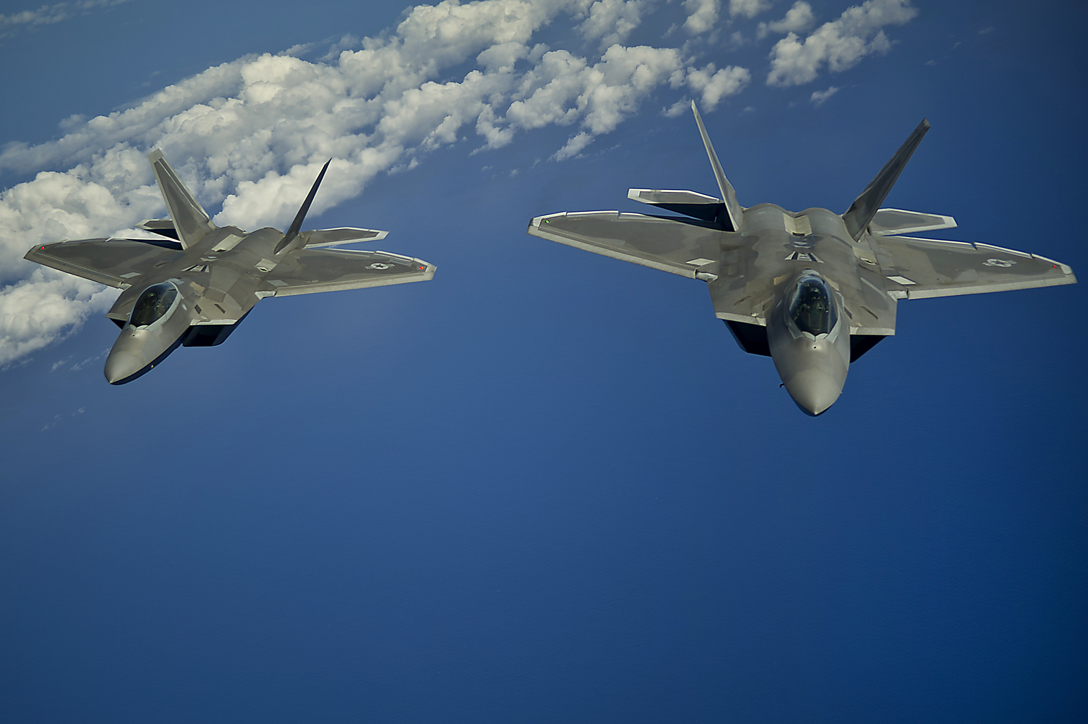 A two ship of Hawaii Air National Guard F-22 Raptors from the 199th Fighter Squadron, Joint Base Pearl Harbor-Hickam, Hawaii, fly a training mission on March 27, 2012, over the Pacific near the Hawaiian Islands.